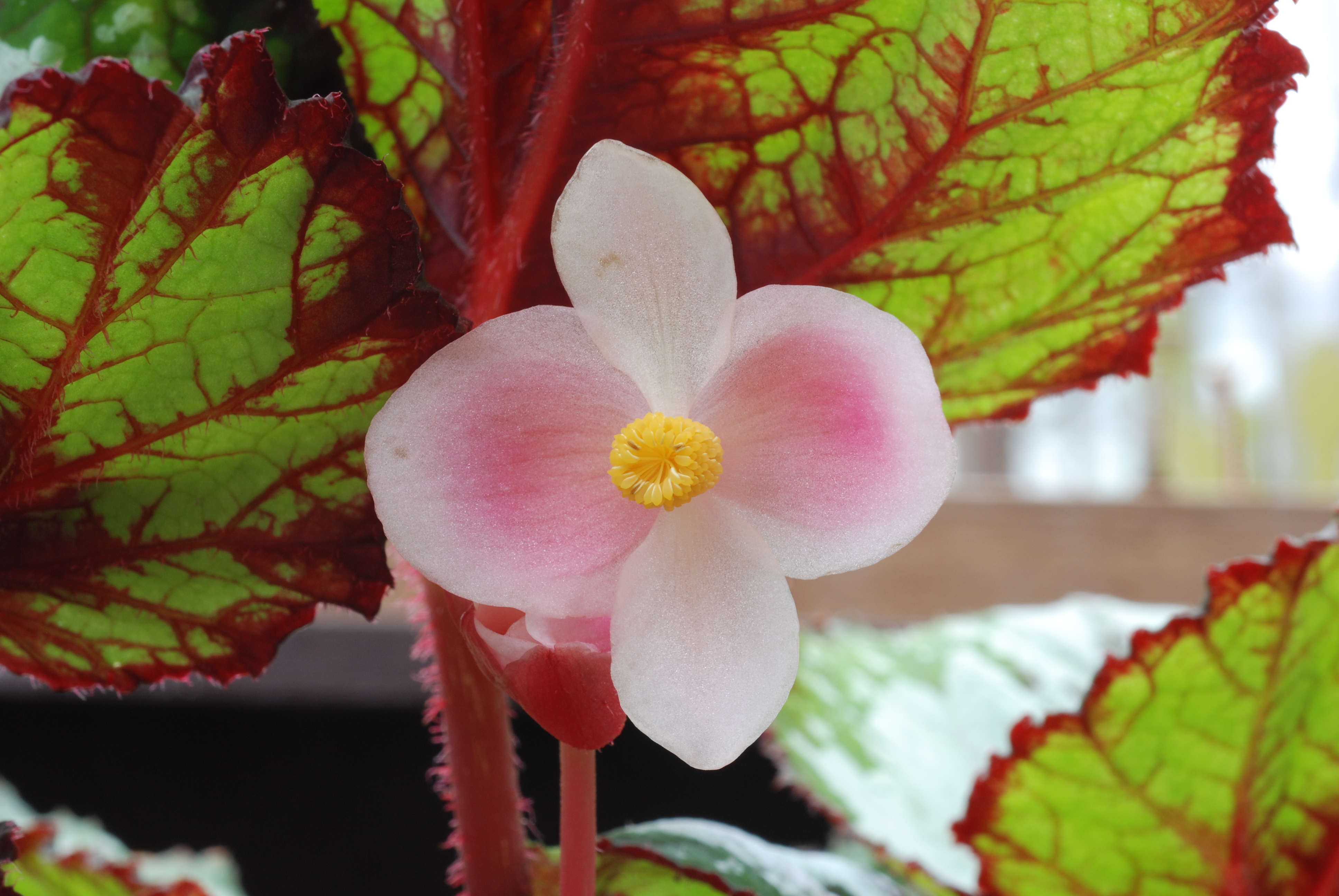 Begonia (Rex-hybrid) 'Merry Christmas Family : Begoniaceae Accessions :10005289 National Botanical Garden of Belgium Meise Botanic Garden Native nameNationale Plantentuin van België / Jardin Botanique National de BelgiqueLocationDomein van Bouchout / Domaine de BouchoutNieuwelaan 381860 MeiseBelgiumCoordinates50° 55′ 42.28″ N, 4° 19′ 36.78″ E Established1826: established, 1870: became publicly owned,Web page control : Q3052500 VIAF: 159423716 ISNI: 0000 0001 2195 7598 LCCN: n50078011 NLA: 35880480 SELIBR: 120680 WorldCat institution QS:P195,Q3052500 Created under the volunteer photographer program at the National Botanical Garden of Belgium.